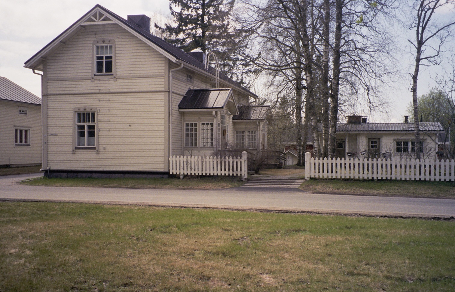 A wooden house in Yläsiirtola, a part of the Puolivälinkangas district of Oulu, Finland.